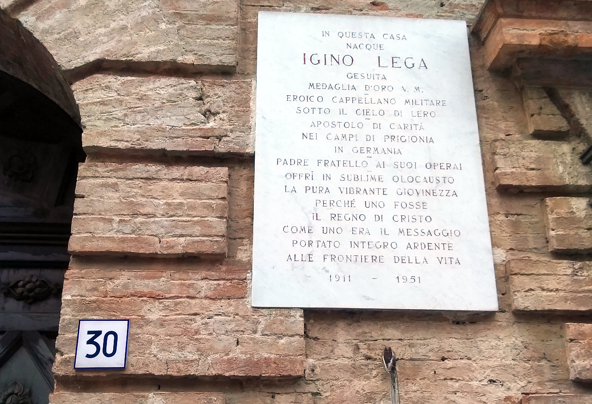 Igino Lega memorial tablet in Brisighella (RA, Italy)